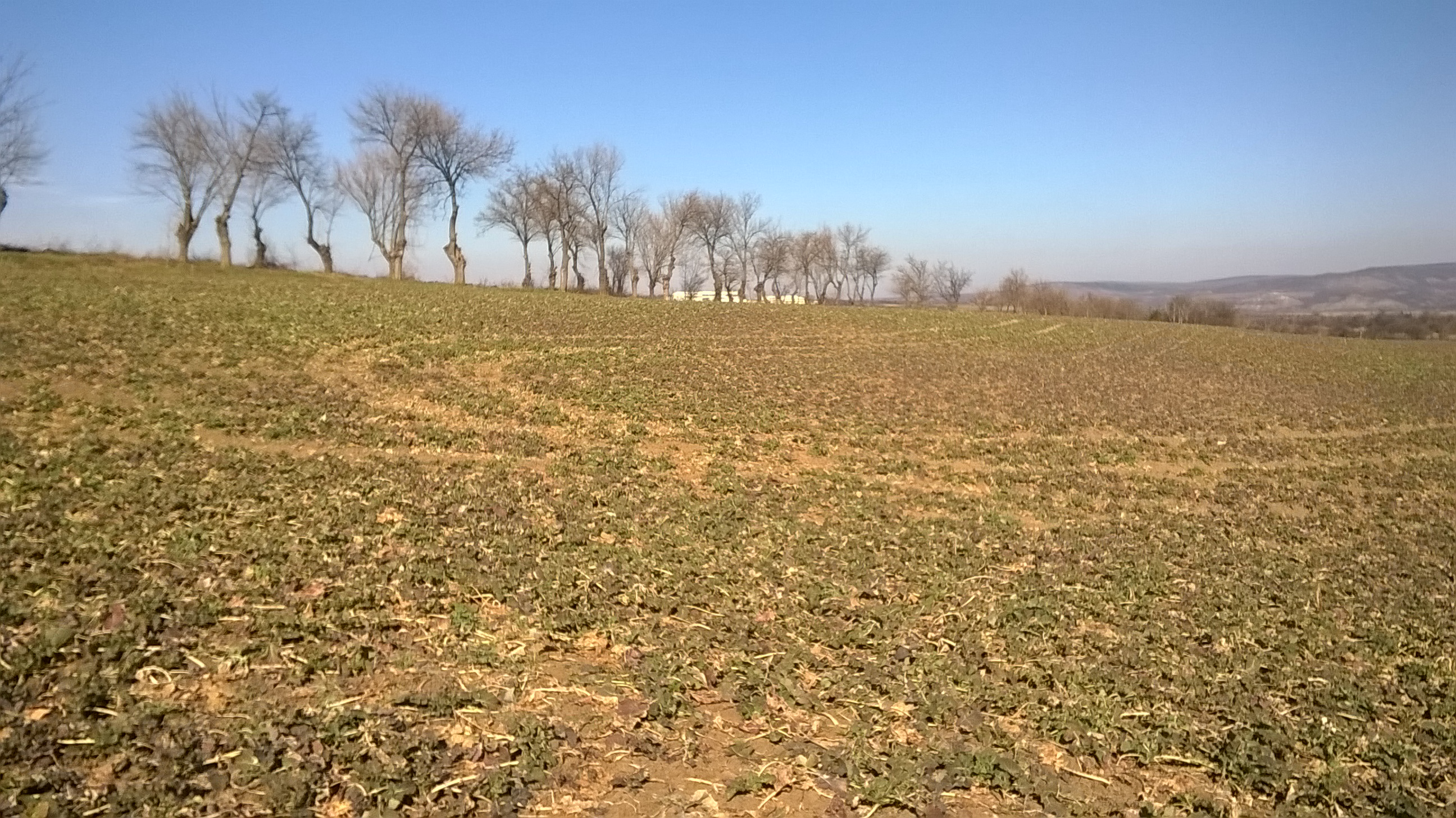 Field in the Bulgarian village Polski Senovetz